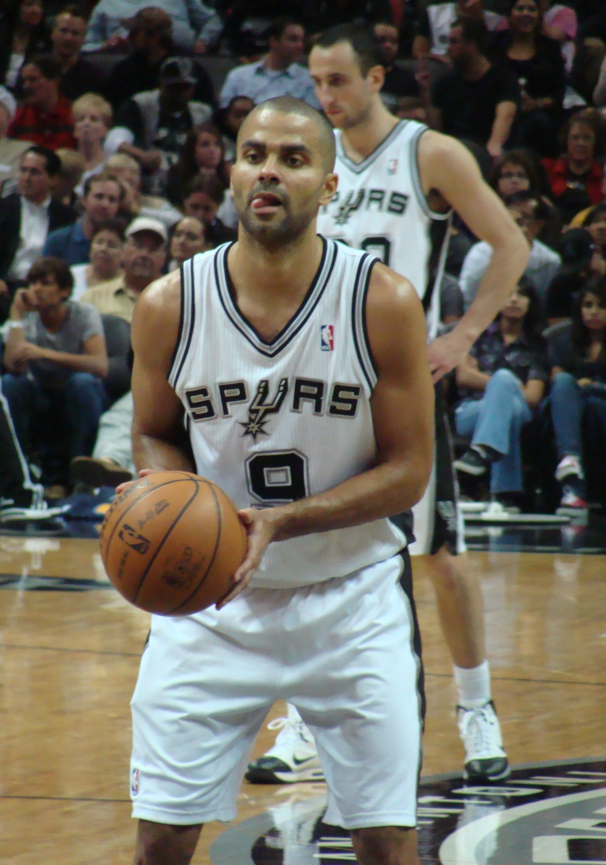 Tony Parker of the San Antonio Spurs, during the Spurs-Nuggets match on 12-22-2010 in San Antonio, TX.